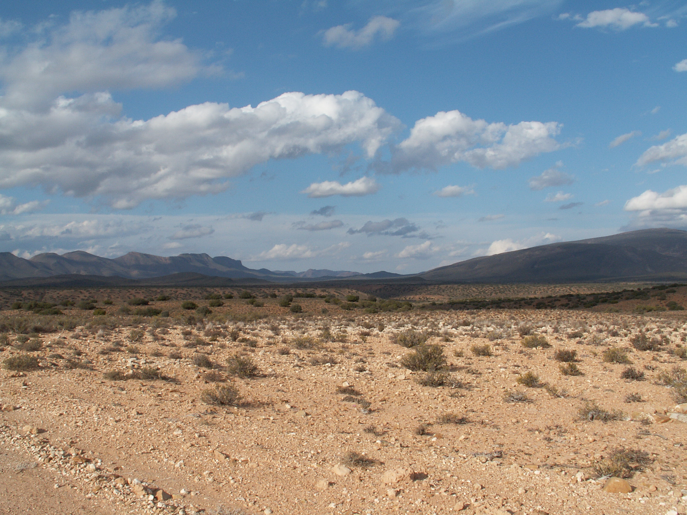 Anysberg Nature Reserve, Western Cape, South Africa